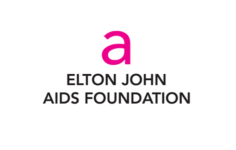 Elton John AIDS Foundation Logo